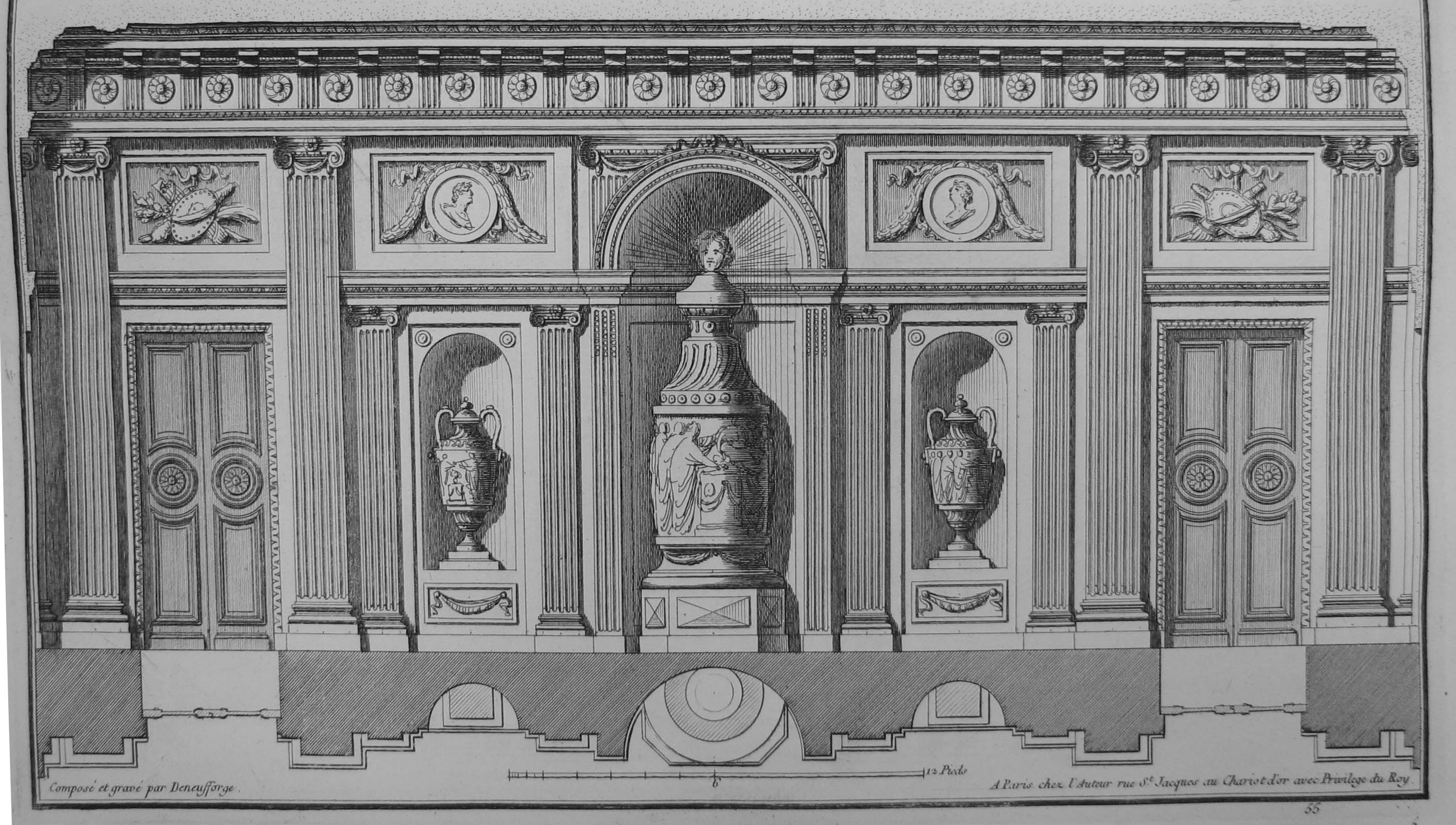 an interieur decoration